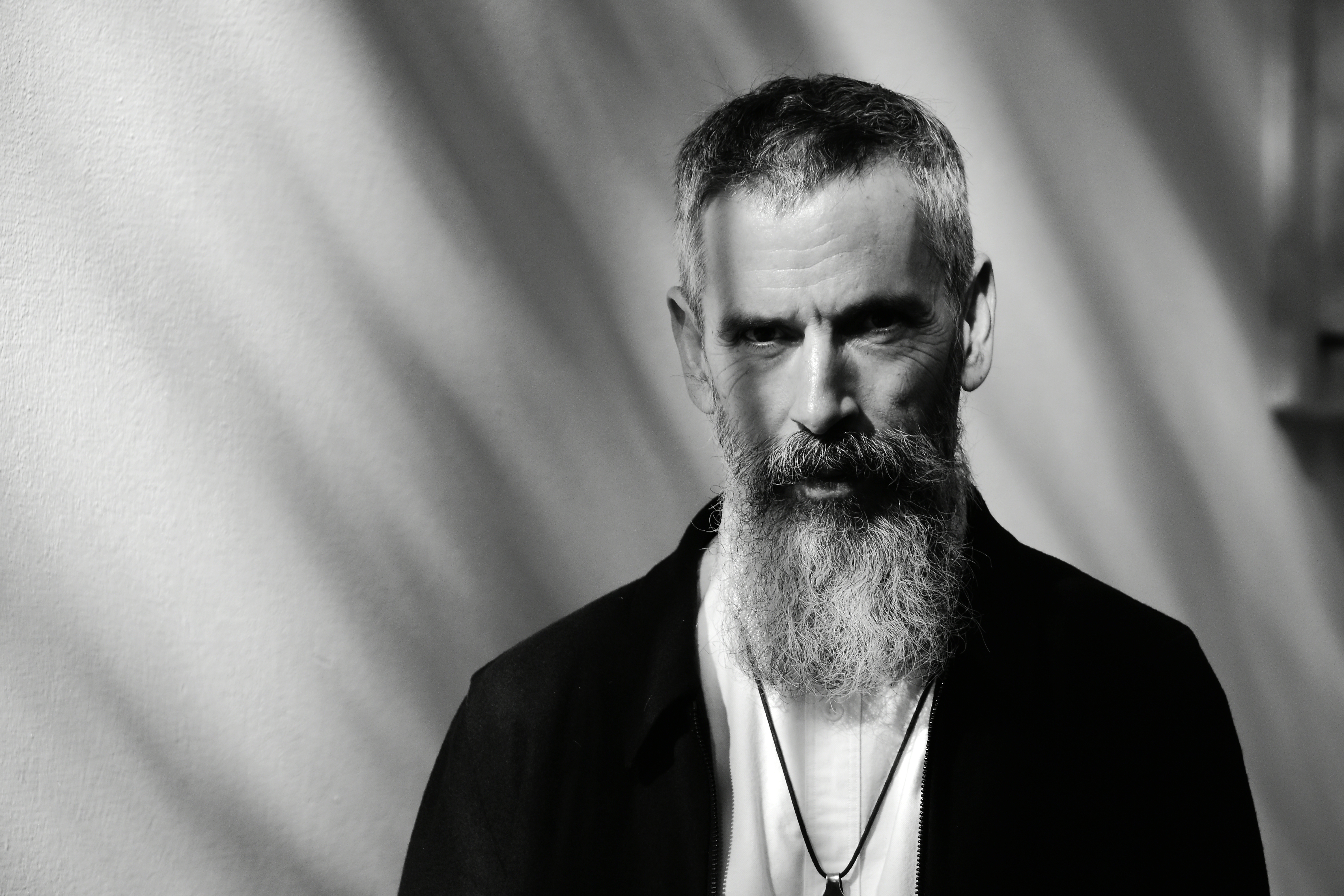 Portrait made in Vienna